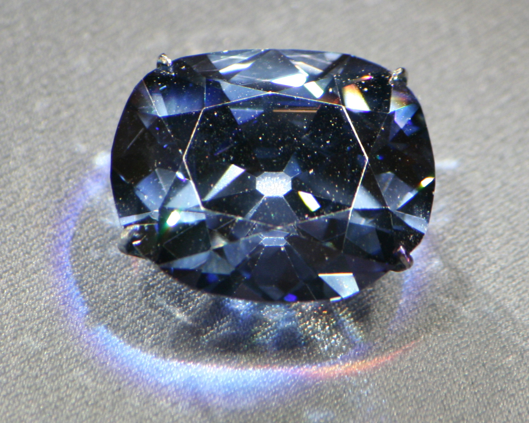 Another view of Hope Diamond with lighting. See another version for a clearer view, but less "brilliance" at HopeDiamondwithLighting.JPG.